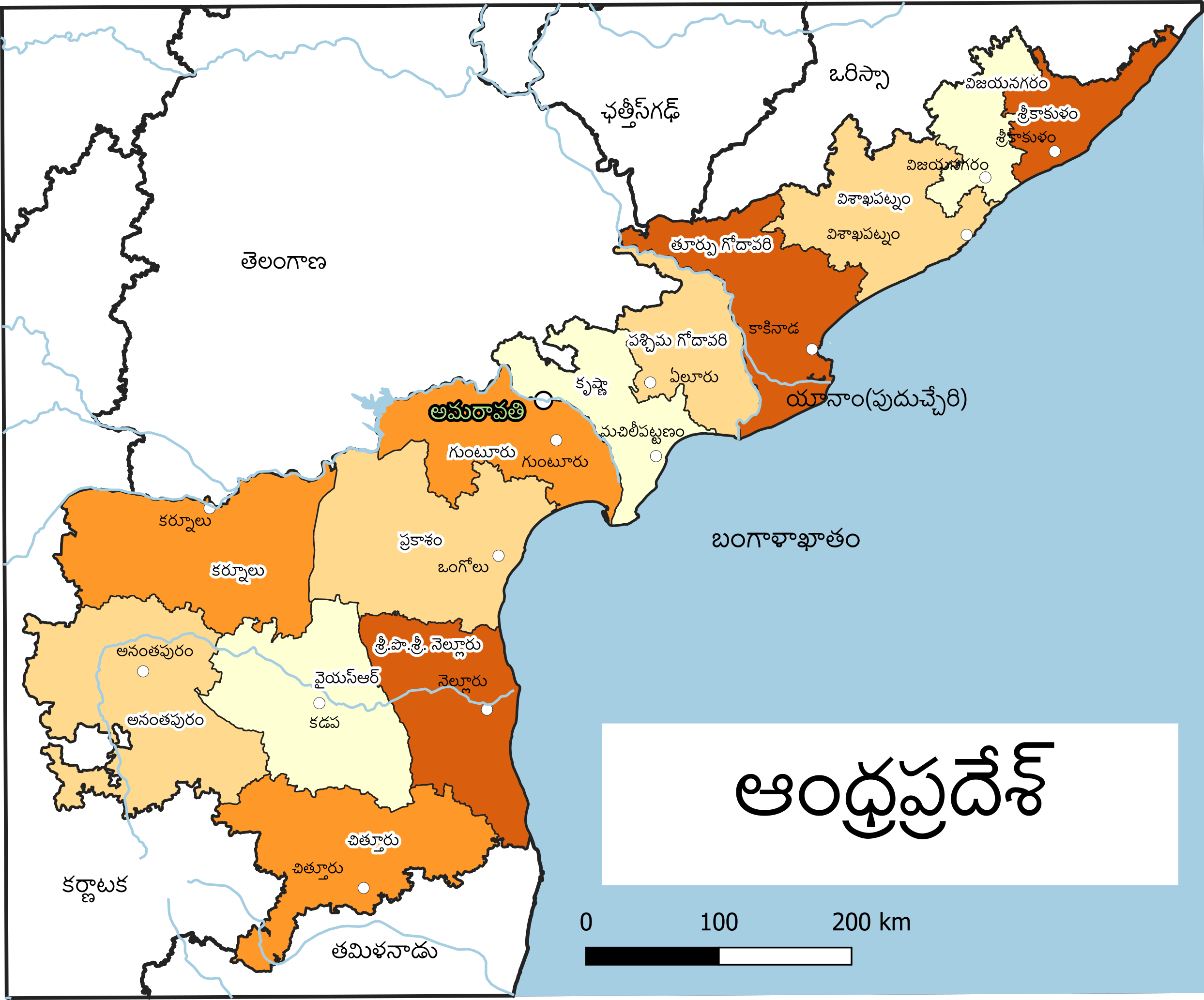 Andhra Pradesh Districts map after After Andhra Pradesh Reorganisation in 2014 with Telugu Legend Inputs: 1) India State boundaries (after reorganisation of Andhra Pradesh in 2014 and updation of Telangana boundary by SOI. Archive URL: 2)India boundary 3)District maps from: 4)River shapes from Natural Earth ( Rivers + lake centerlines Version 4.1.0, Lakes + Reservoirs Version 4.1.0: ) Processing using QGIS version 3.4.4-Madeira Andhra Pradesh district boundaries are updated using Telangana boundary CRS EPSG:4326 - WGS 84 - Geographic Extent 76.6123255059557806,12.4375674499940345 : 84.9528352876628219,19.3353756498417759 Unit degrees For additional info: check